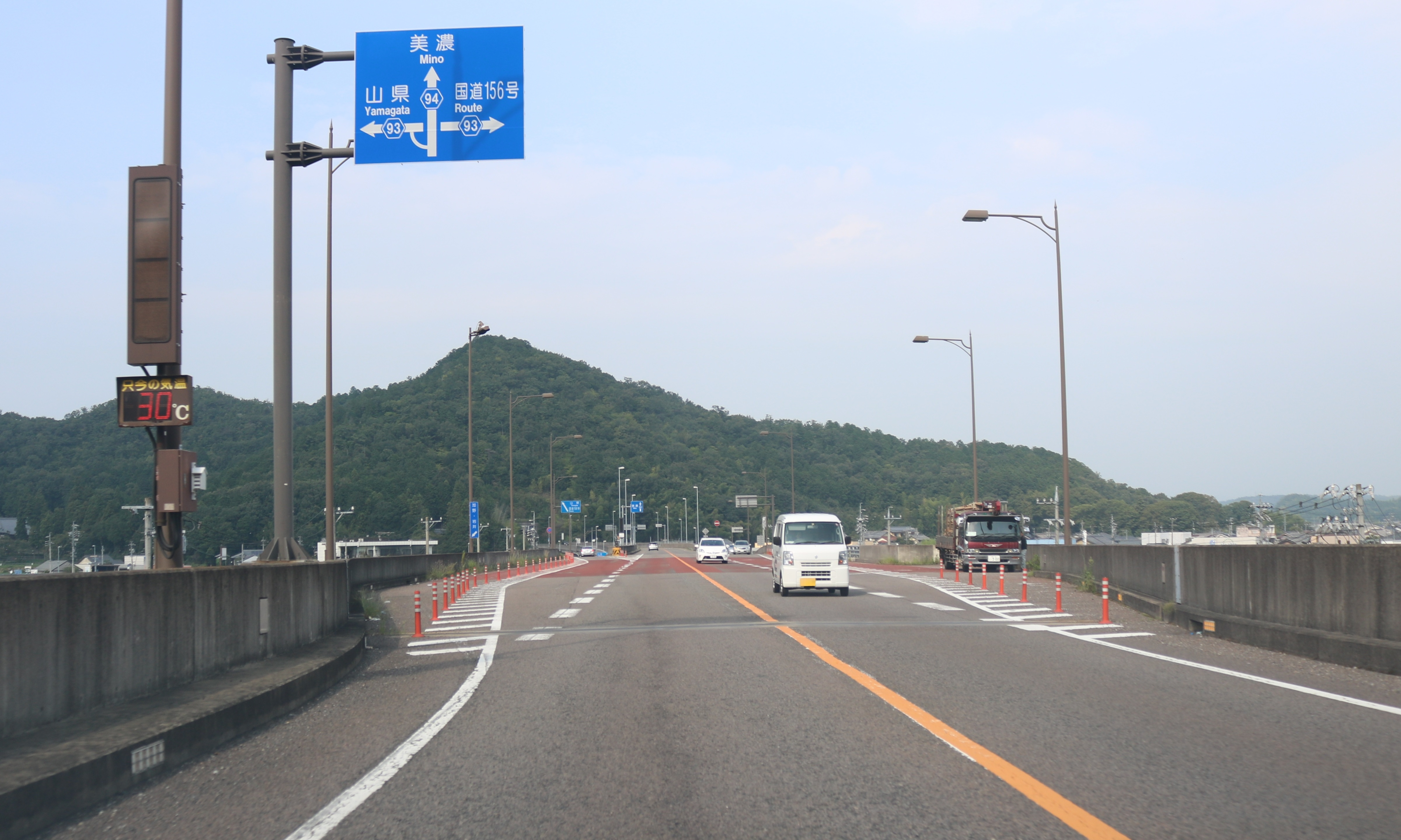 Gifu Prefectural Road Route 94 and Gifu Prefectural Road Route 93 in Kano, Gifu City, Gifu Prefecture, Japan.